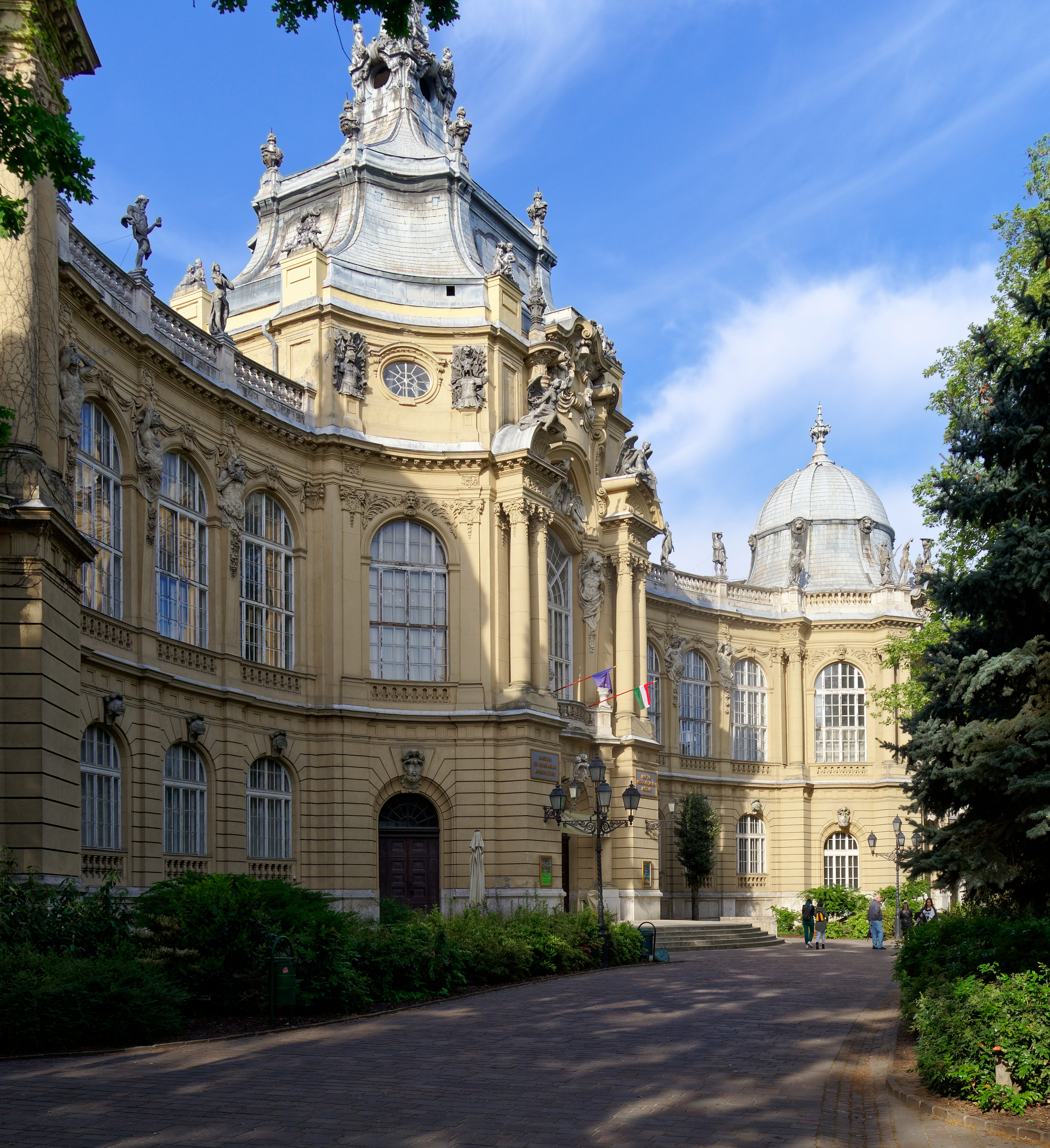 Museum of Hungarian Agriculture in Budapest